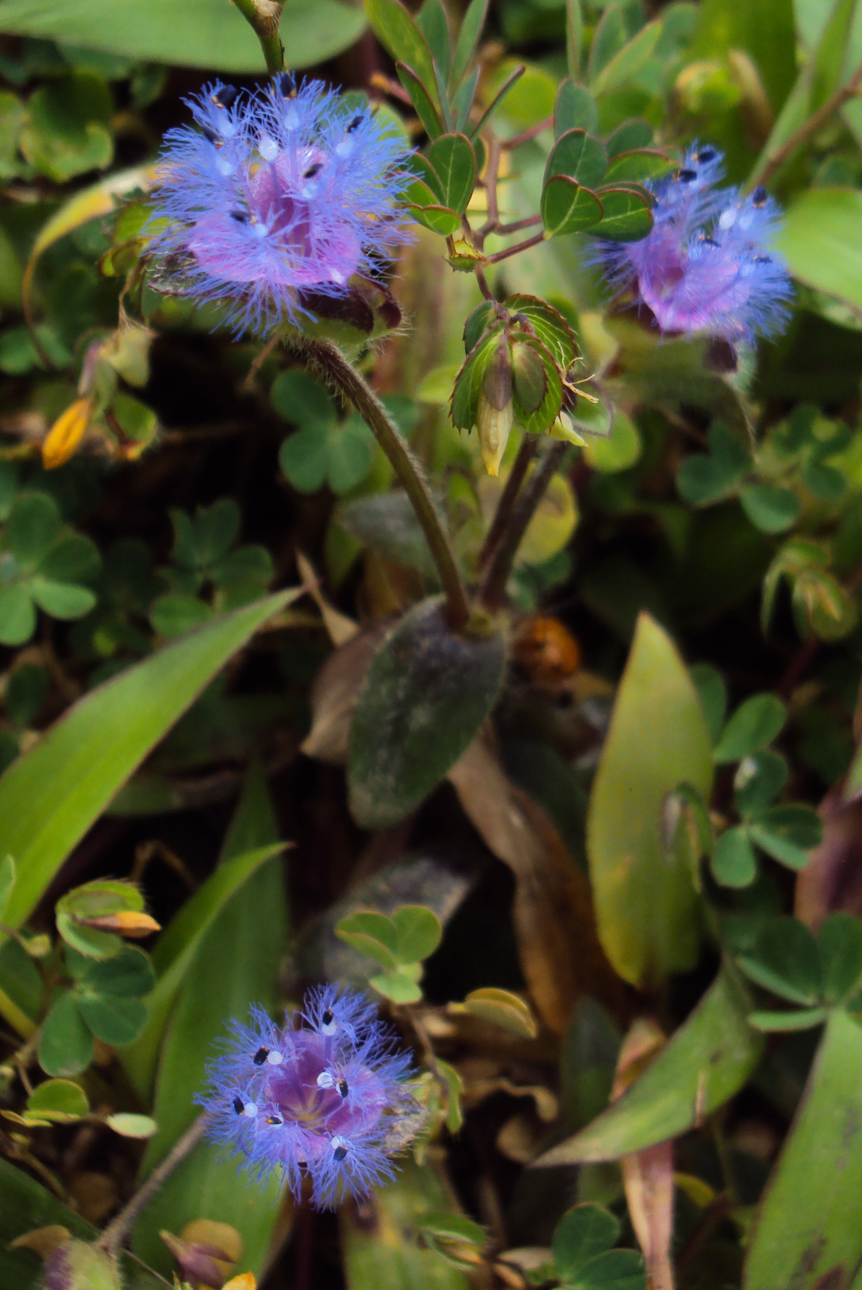 Cyanotis papilionacea